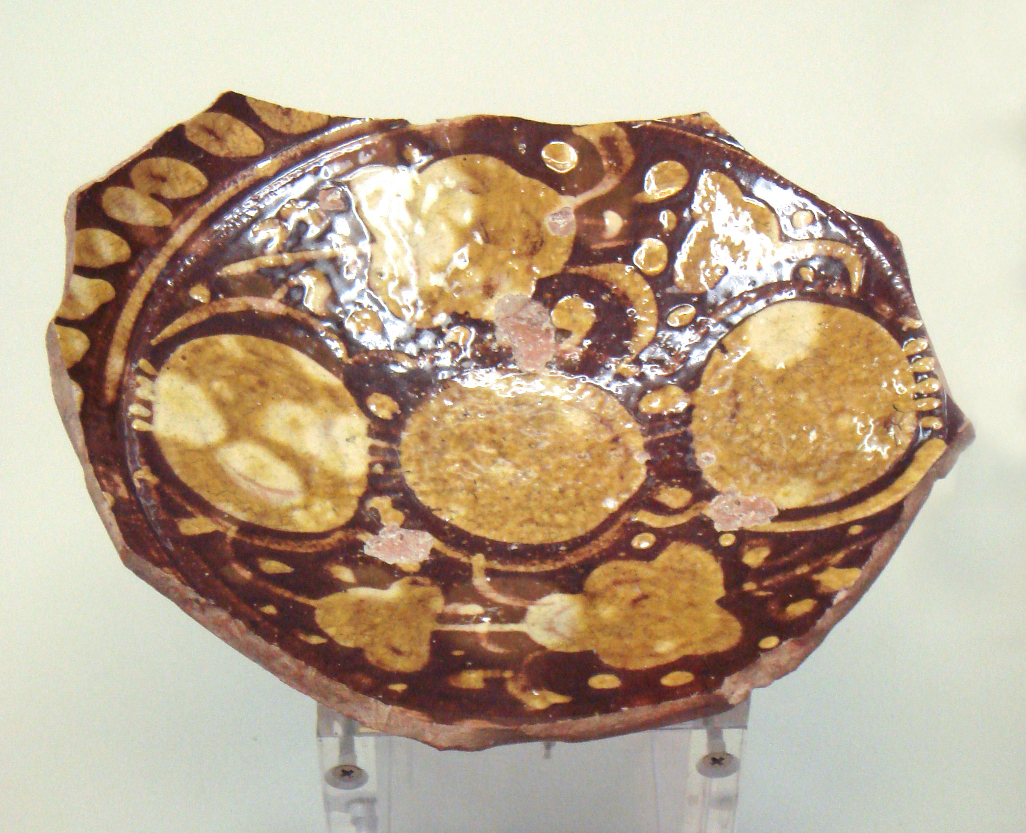 Iznik_bowl_base_mid-14th_century_early_Ottoman